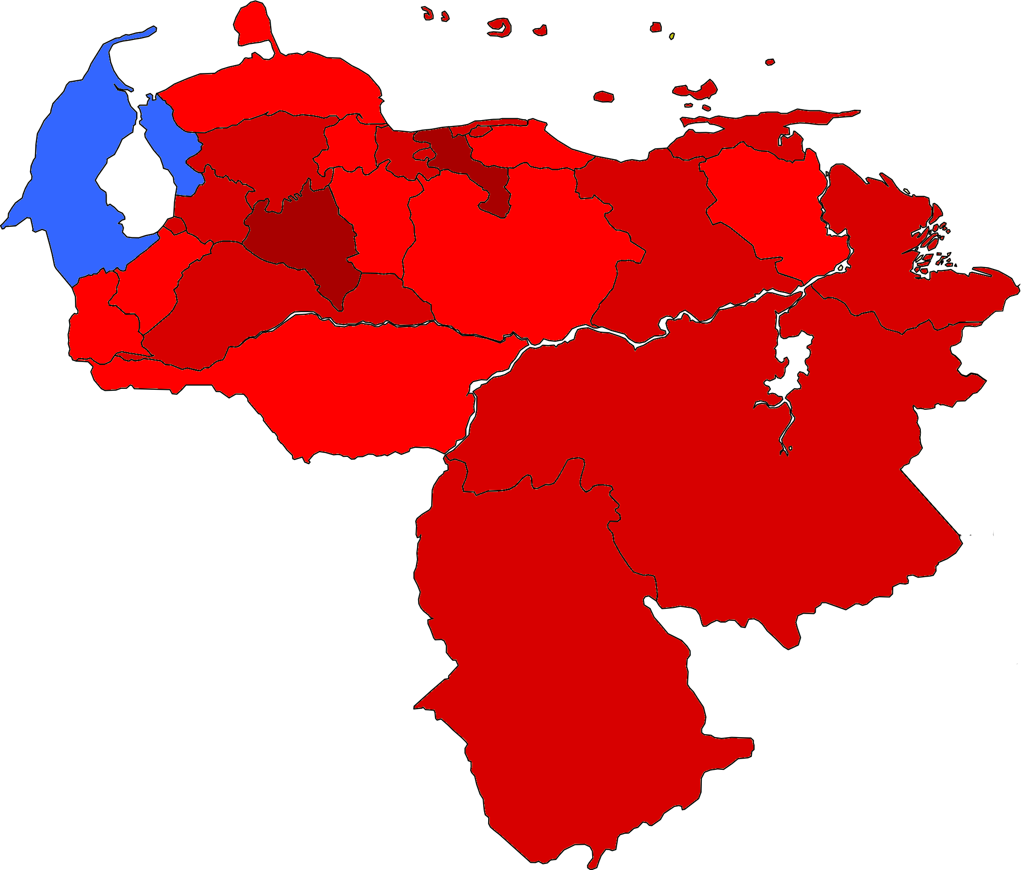 Map of the Venezuelan Presidential Election of 2000.